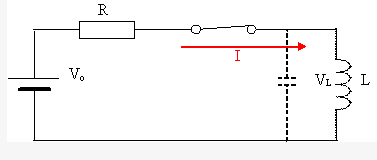 Battery, resistor, closed switch and inductor.